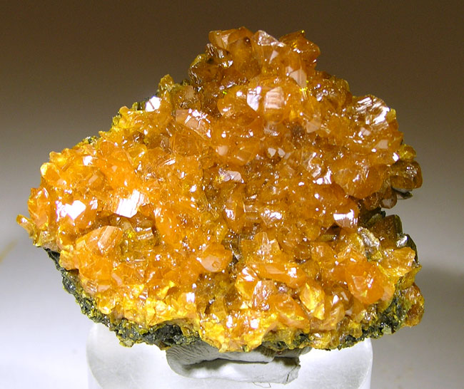 Orpiment Locality: Twin Creeks Mine, Potosi District, Humboldt County, Nevada, USA (Locality at ) A specimen from the finds in Nevada that re-defined how good orpiments can be. Superb luster, wonderful orange color. 5.1 x 3.8 x 2.6 cm